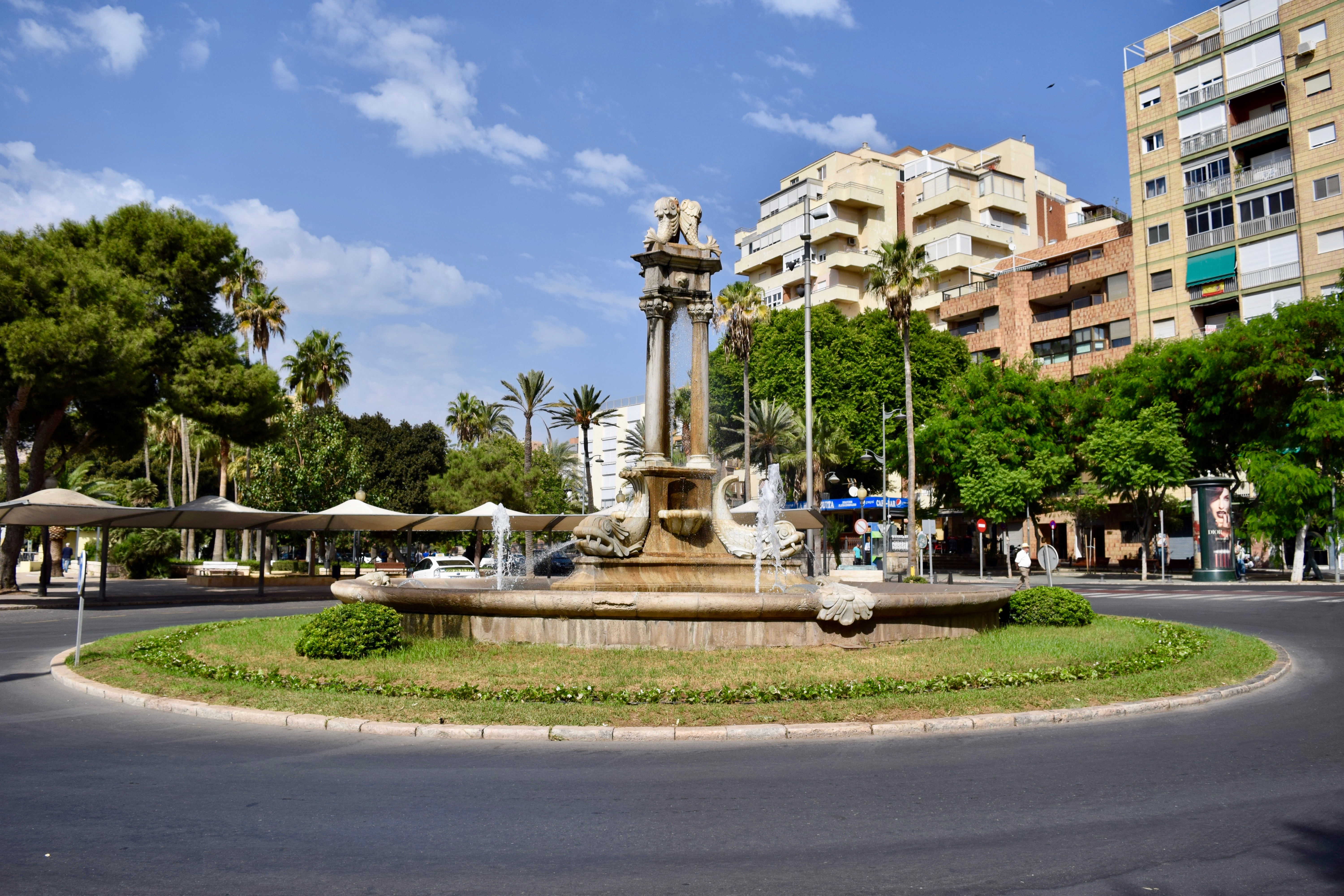 Fuente de los peces en el parque Nicolás Salmerón (Almería)